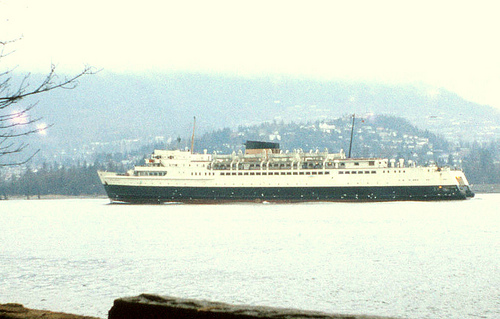 Since 1955, after a rough start (severely damaging a dock on her maiden voyage if memory serves) she provided convenient passenger service between downtown Vancouver and Nanaimo until the early 1980's. My trips were usually by bike and included my dog for which reason I often stayed below on the vehicle deck (mostly rail cars) where my dog and I enjoyed the view of her wake on the approximately 2-hour crossing. Once the cook must have noticed us as he sent down a shoe box full of turkey out of the soup for my dog. We last rode this vessel in 1985 between Powell River and Comox when she was in the BC Ferries fleet. I had though that she might still be in service there but according to recent report has changed hands several times and might still be sailing in China. She didn't have quite the classic lines as, for example, her much earlier sisters Princess Elaine and Princess Joan but wasn't a bad looking ship. Fondly remembered my many here, I'm sure.